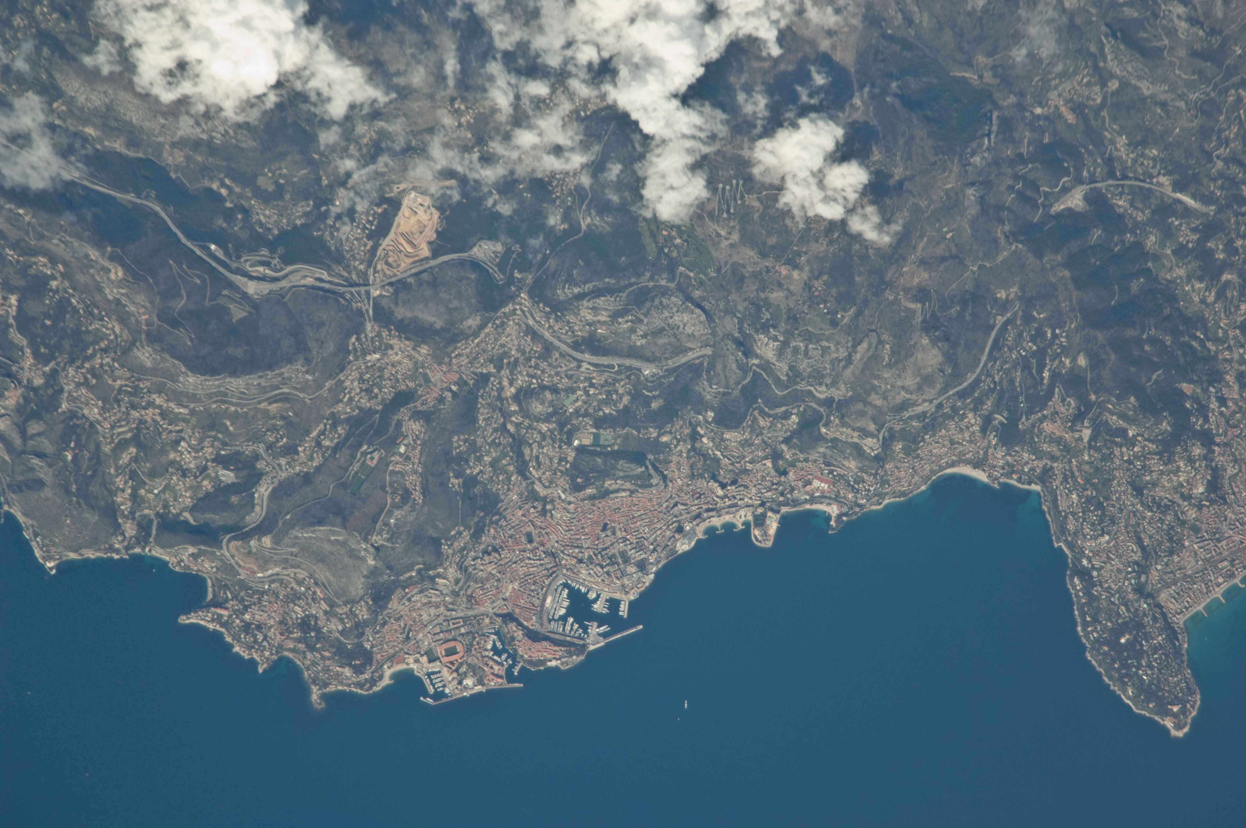 Astronaut Photo of Monaco, Monaco taken from the International Space Station (ISS) during Expedition 23 on March 23, 2010.